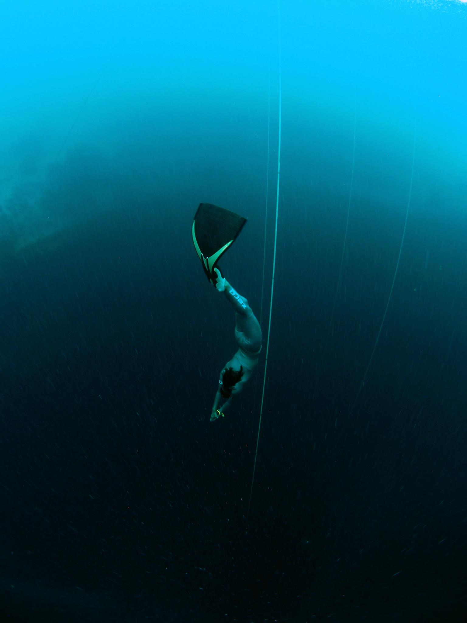 VERTICAL BLUE 2015 CWT